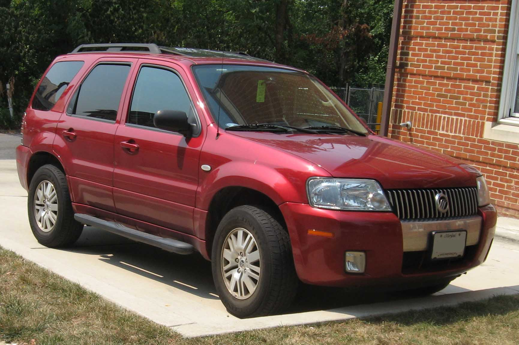 2005-2007 Mercury Mariner photographed in USA.